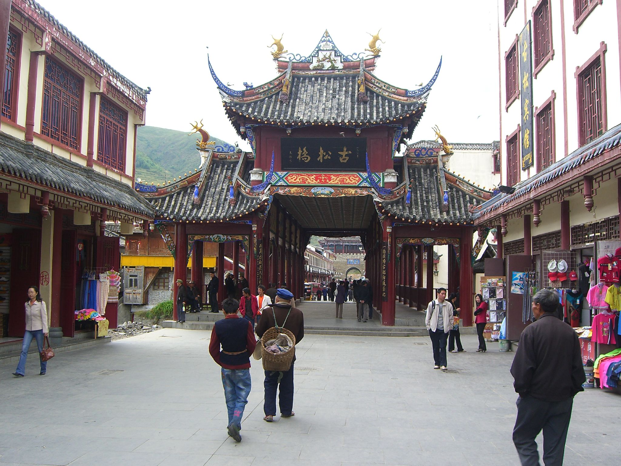 Songpan Bridge, Ngawa Tibetan and Qiang Autonomous Prefecture, Sichuan, China